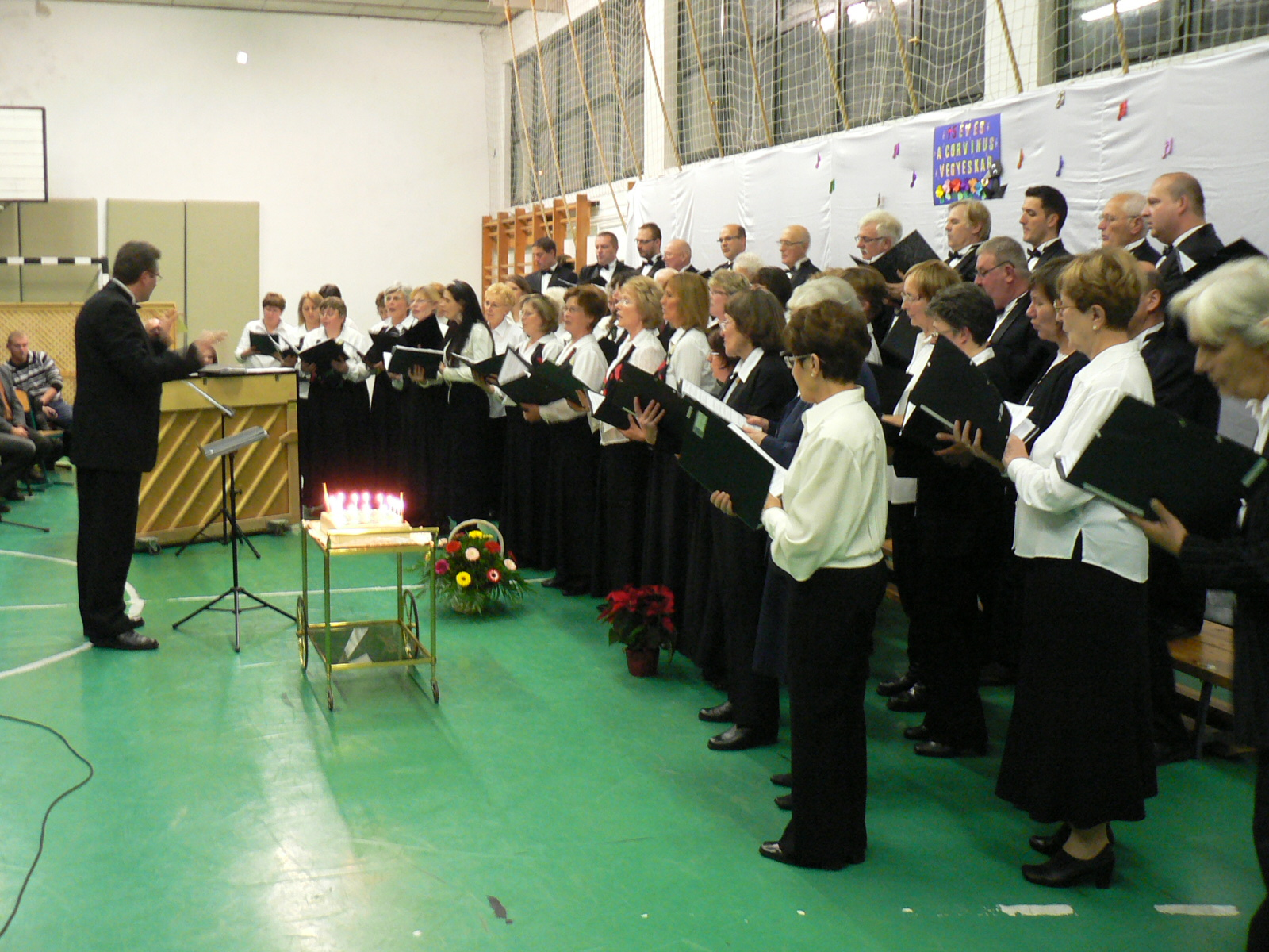 A Corvinus Vegyeskar 15 éves koncertje (2011)